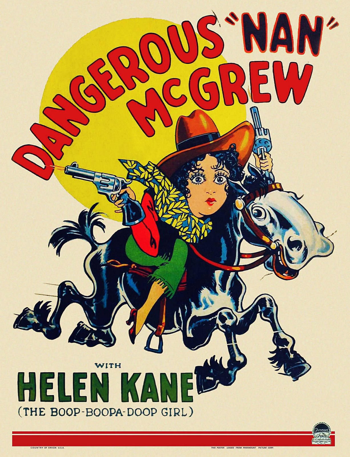 This is a poster for the 1930 American western comedy film Dangerous Nan McGrew.